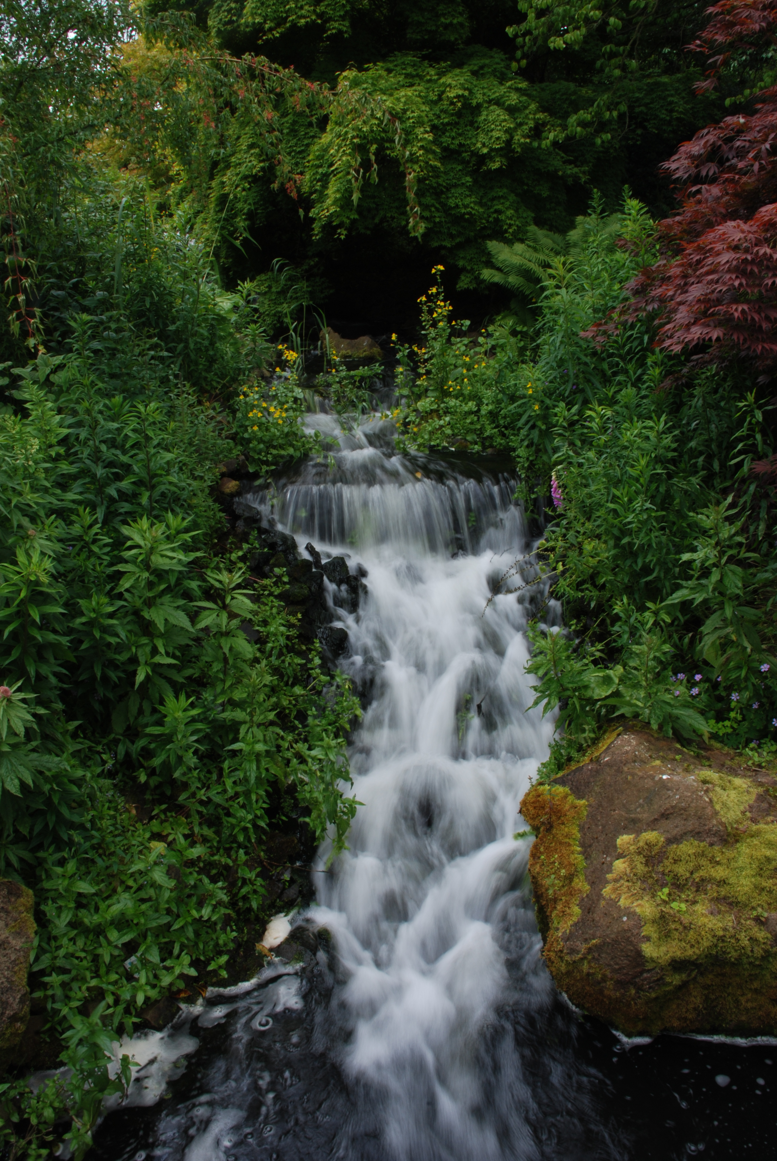 A waterfall in Royal Botanical Garden Edinburgh